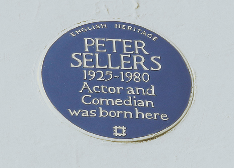 English Heritage blue plaque erected in 2004 at 96 Castle Road, Southsea, Portsmouth. The address is the birthplace of the British comic actor Peter Sellers.